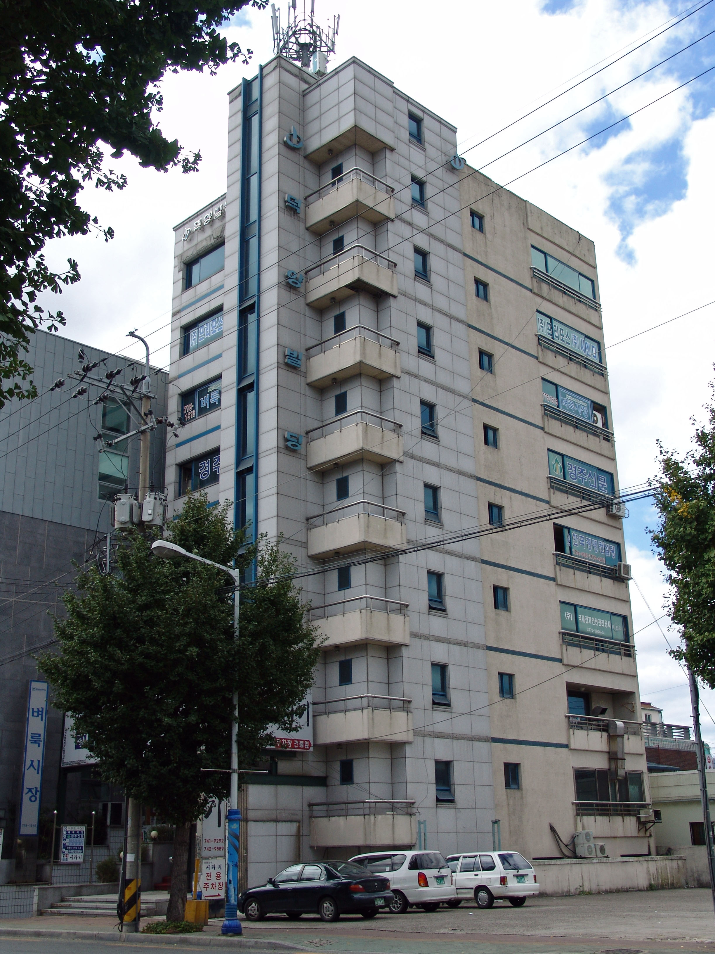 Doekyang-building.